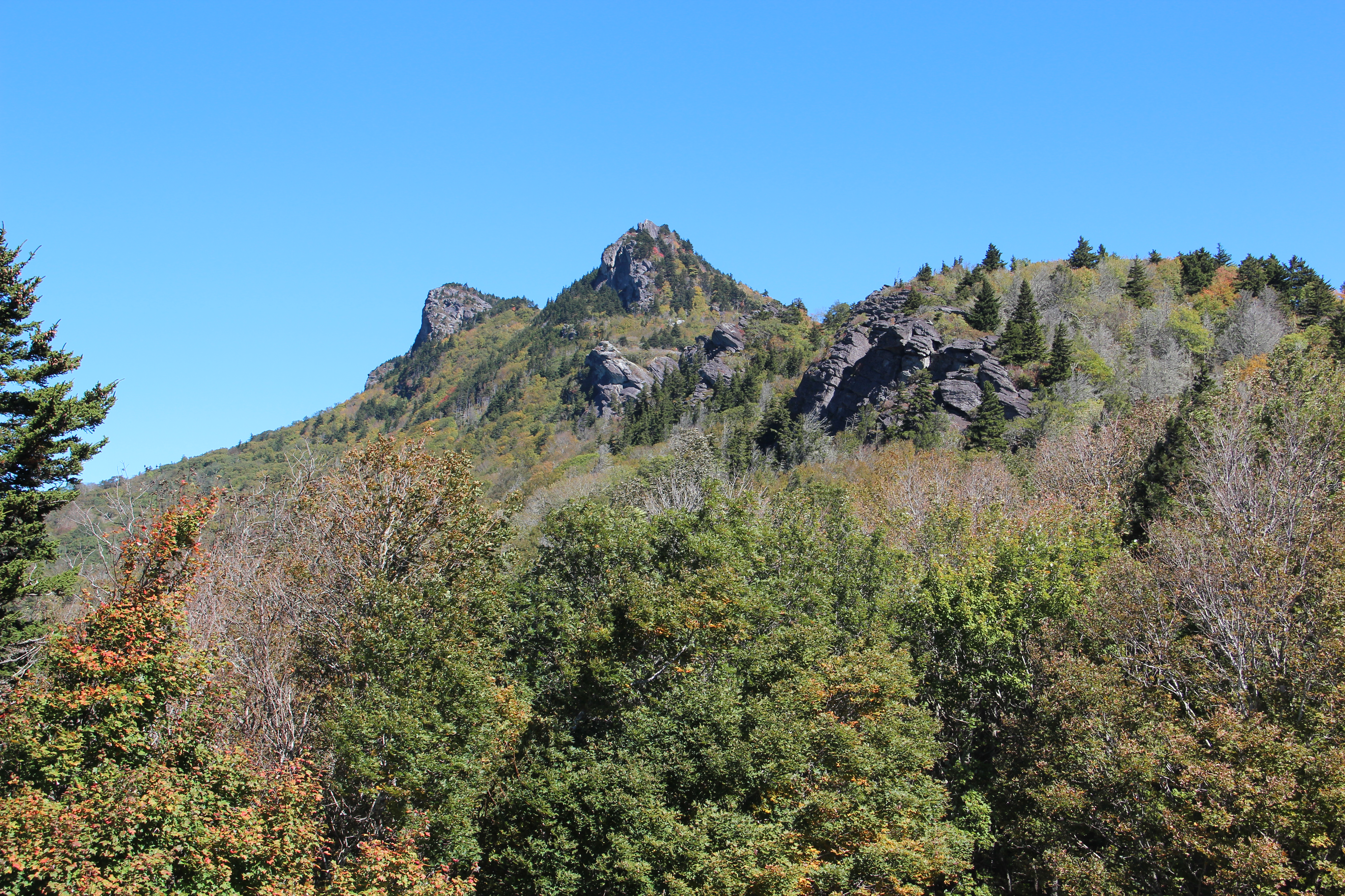 Grandfather Mountain peaks from the Half Moon Overlook